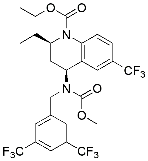 Chemical structure of torcetrapib